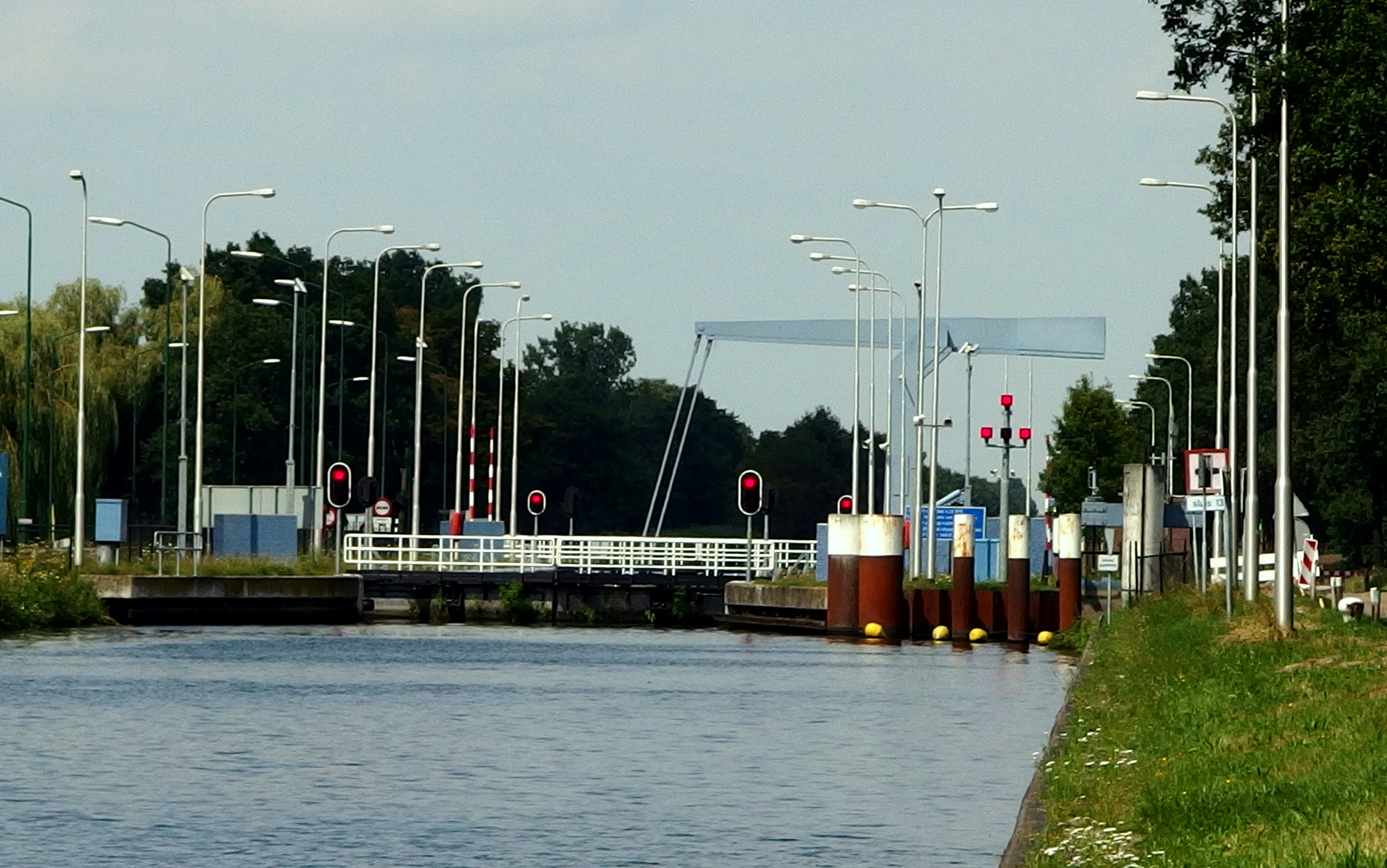 2014-07-24: Sluis (canal lock) 13 in Zuid-Willemsvaart; near Someren.